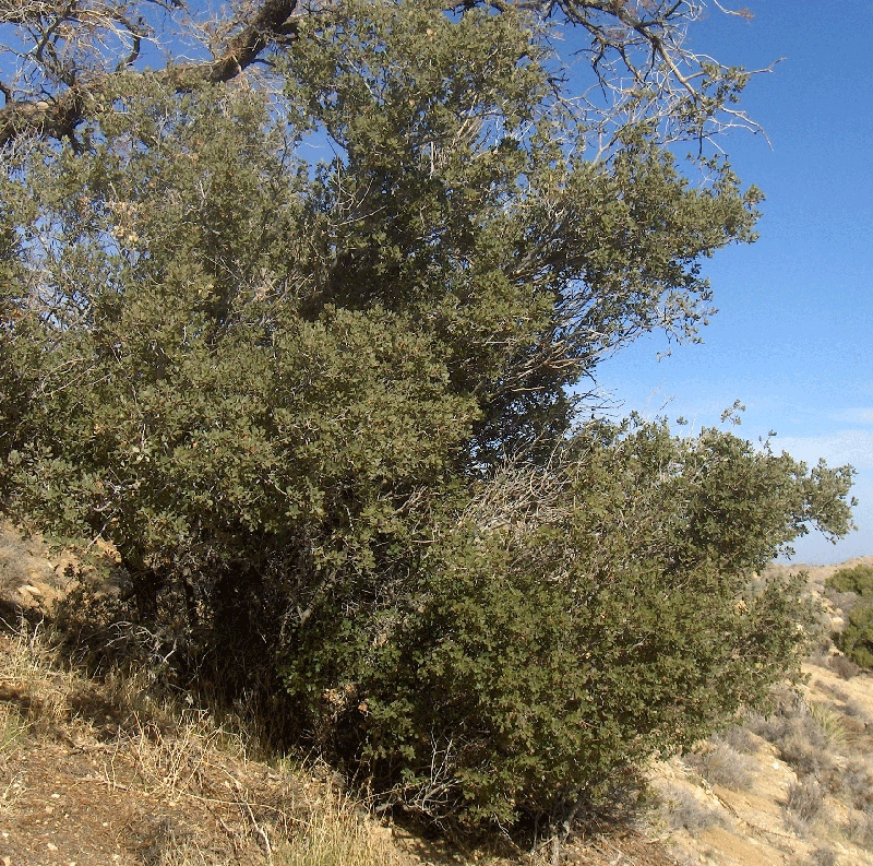 Sonoran Scrub Oak in Joshua Tree N.P.